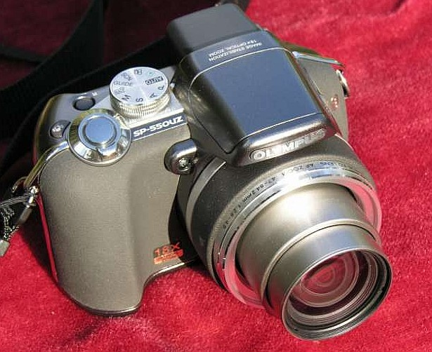 Olympus SP 550UZ Jean-Jacques MILAN 16:47, 9 April 2007 (UTC)